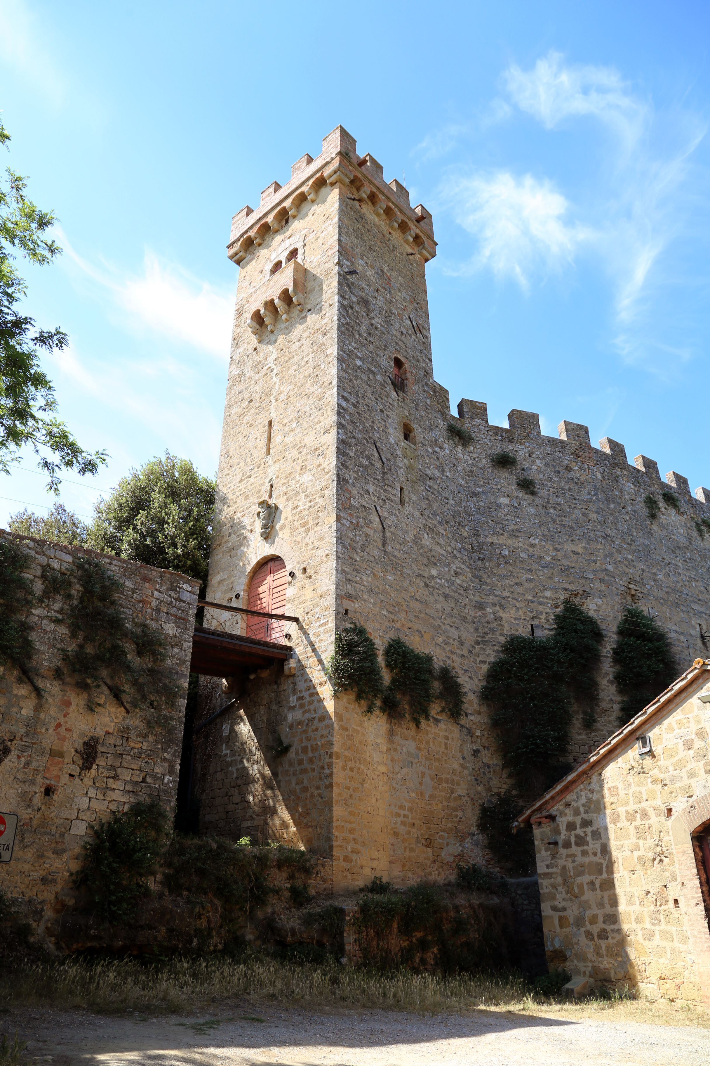 Castello di Strozzavolpe